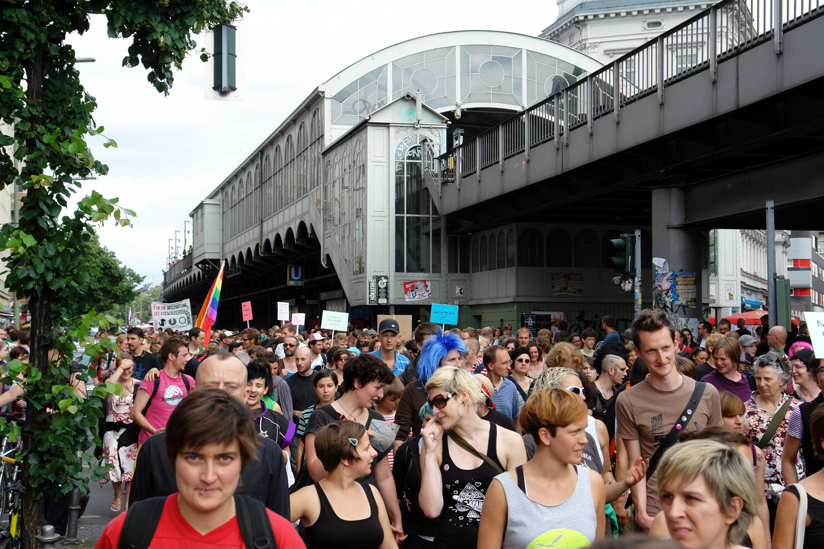 Alternative Pride March (Transgenialer CSD) in Berlin, 2009.